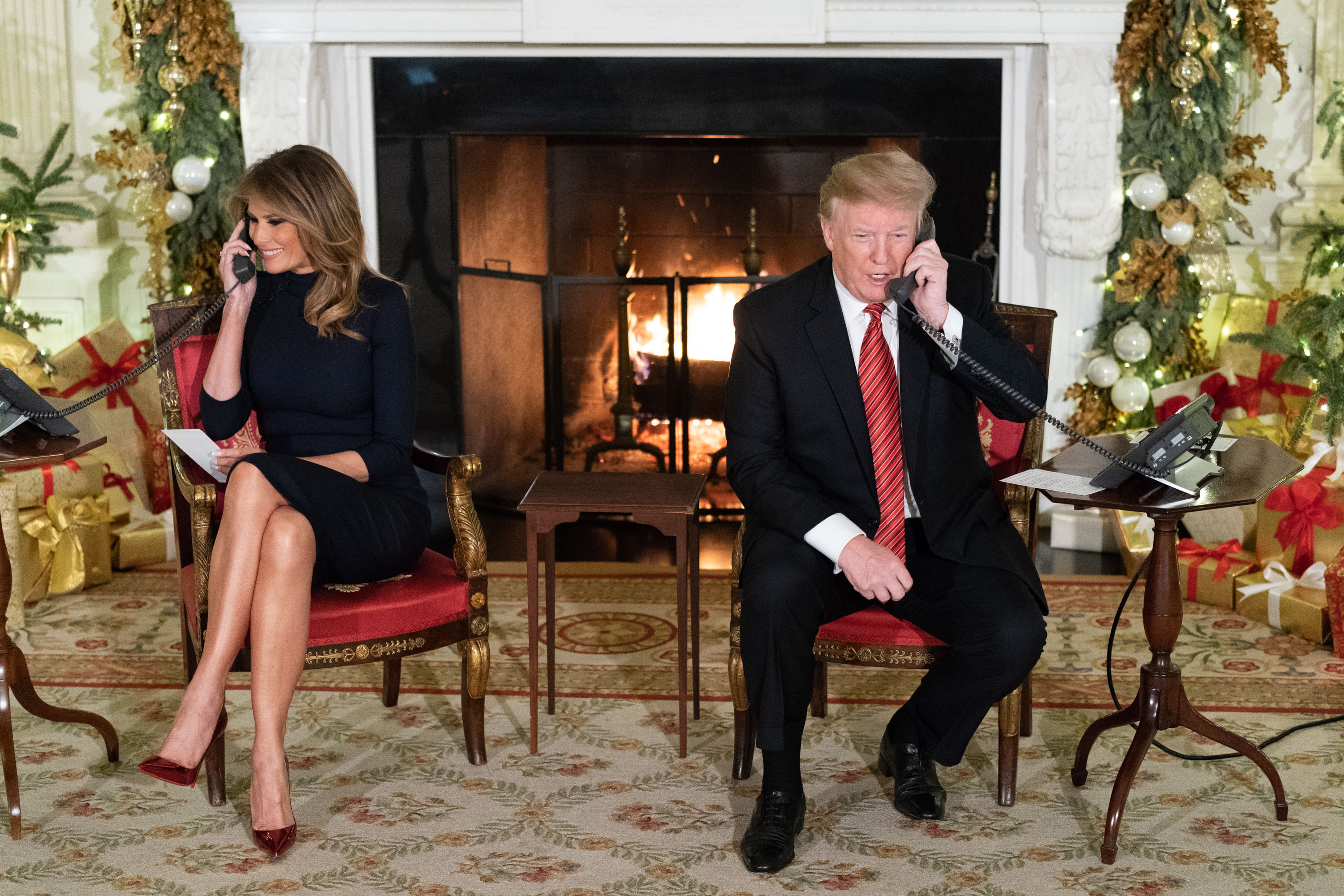 President Donald J. Trump, joined by First Lady Melania Trump, participates in NORAD Santa Tracker phone calls Monday, December 24, 2018, in the State Dining Room of the White House—a Christmas Eve tradition for over 60 years to keep track of Santa’s travels around the world. (Official White House Photo by Shealah Craighead)